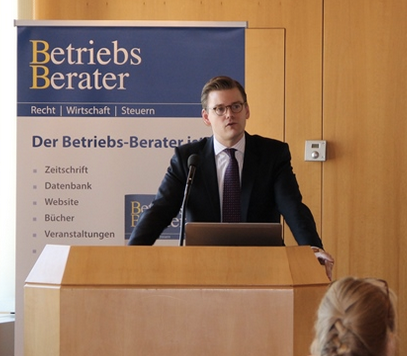 Graewe (2015)